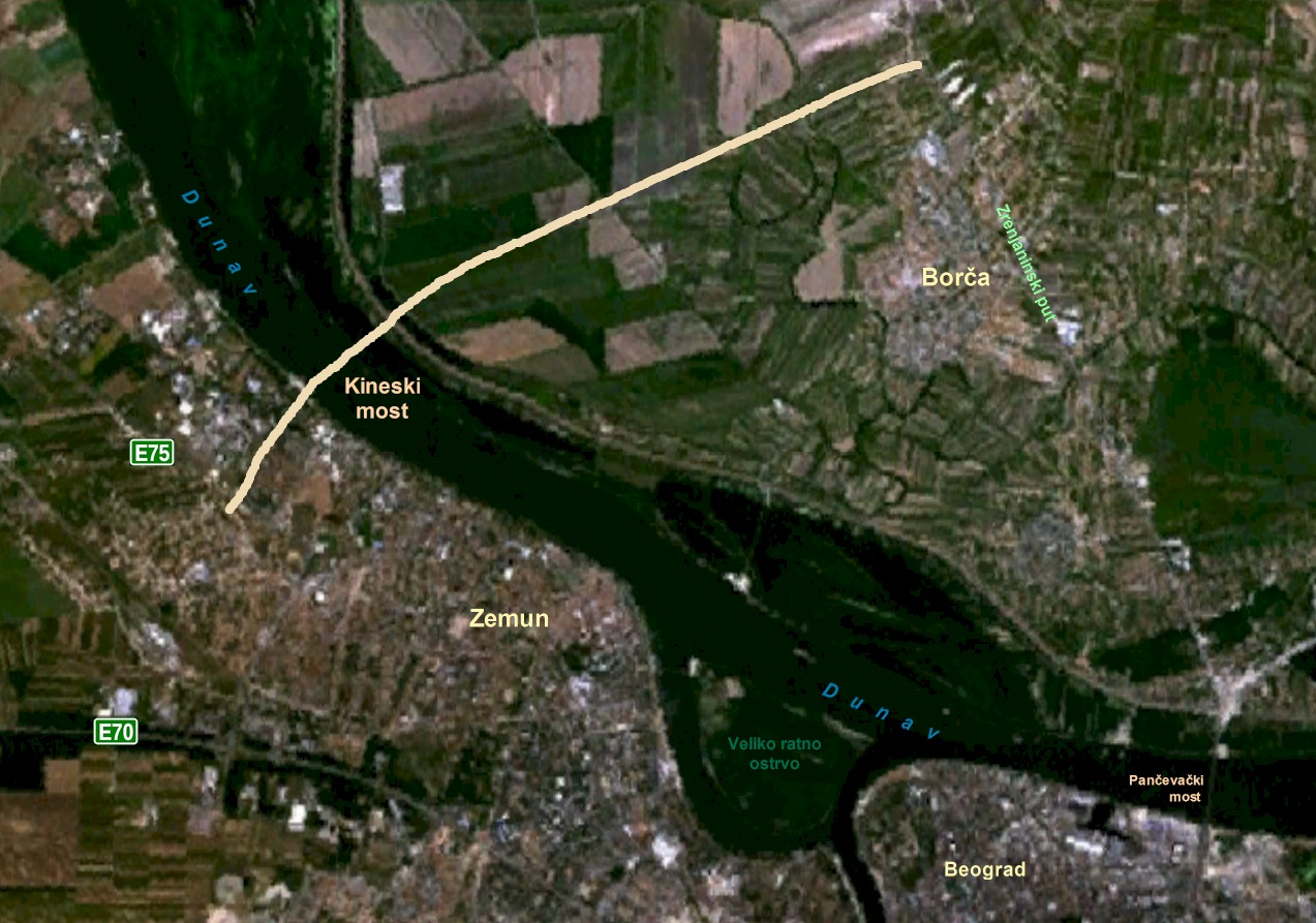 Satellite image of the position of future Chinese Bridge in Belgrade.